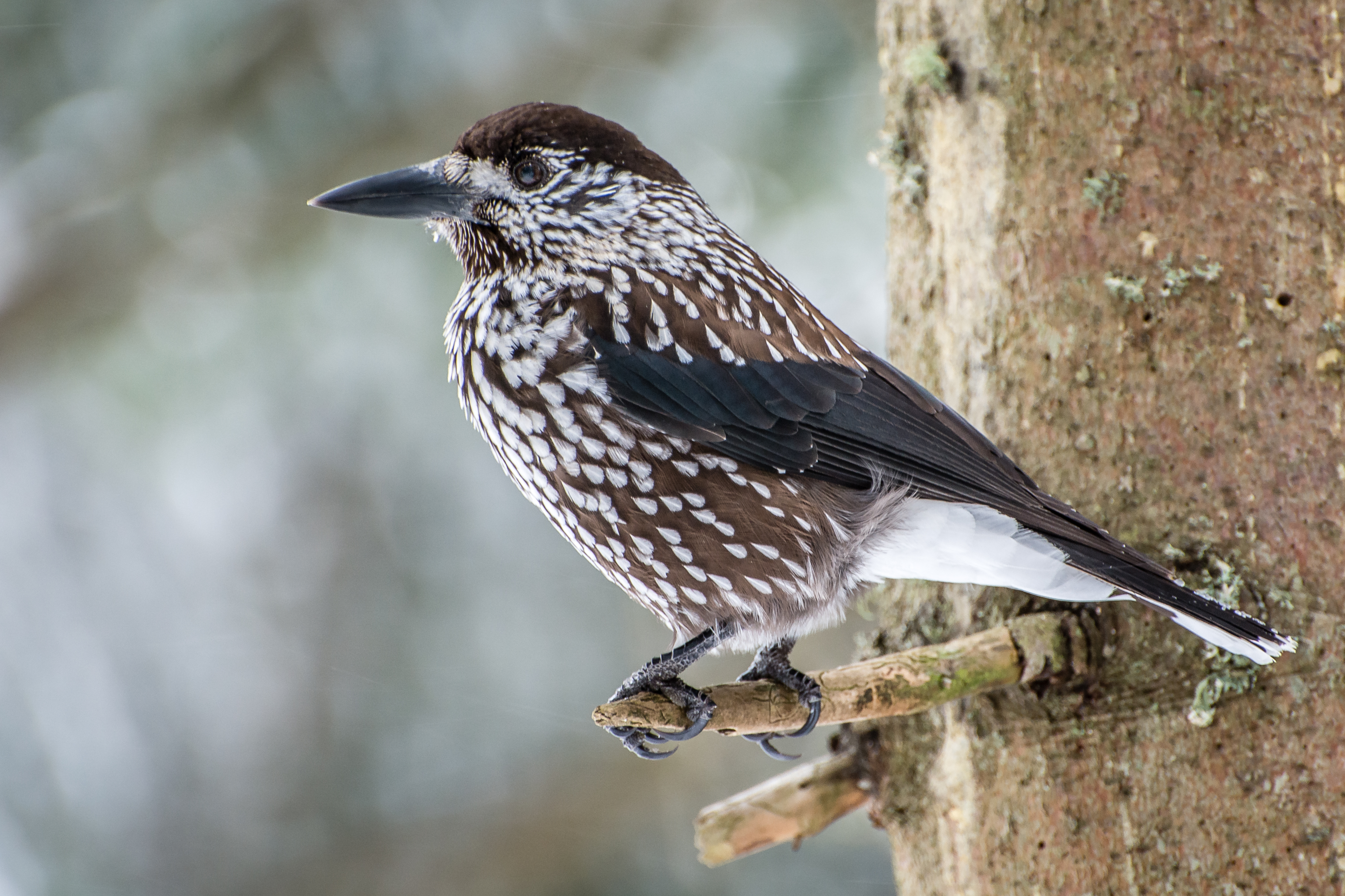 Spotted Nutcracker Nucifraga caryocatactes on a branch near Lake Davos, Switzerland